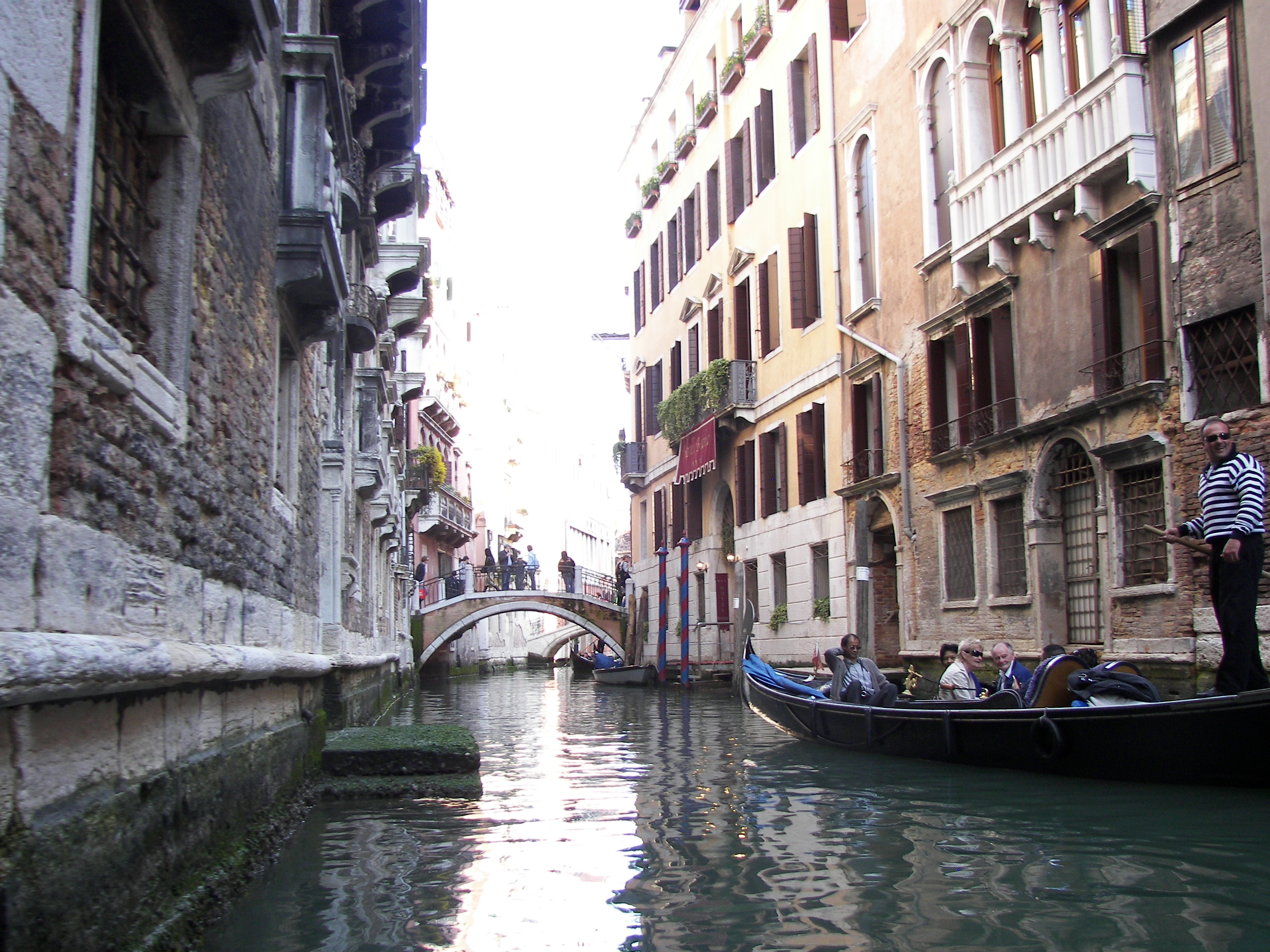 Gondola ride on Rio dei Barcaroli in Venezia. Ponte dei Barcaroli is the bridge in the foreground. The light colored building just to its left is Casa Ceseletti where Wolfgang Amadeus Mozart stayed with his family on tour in 1771. Part of the Ponte de Piscina can be seen further in the background.